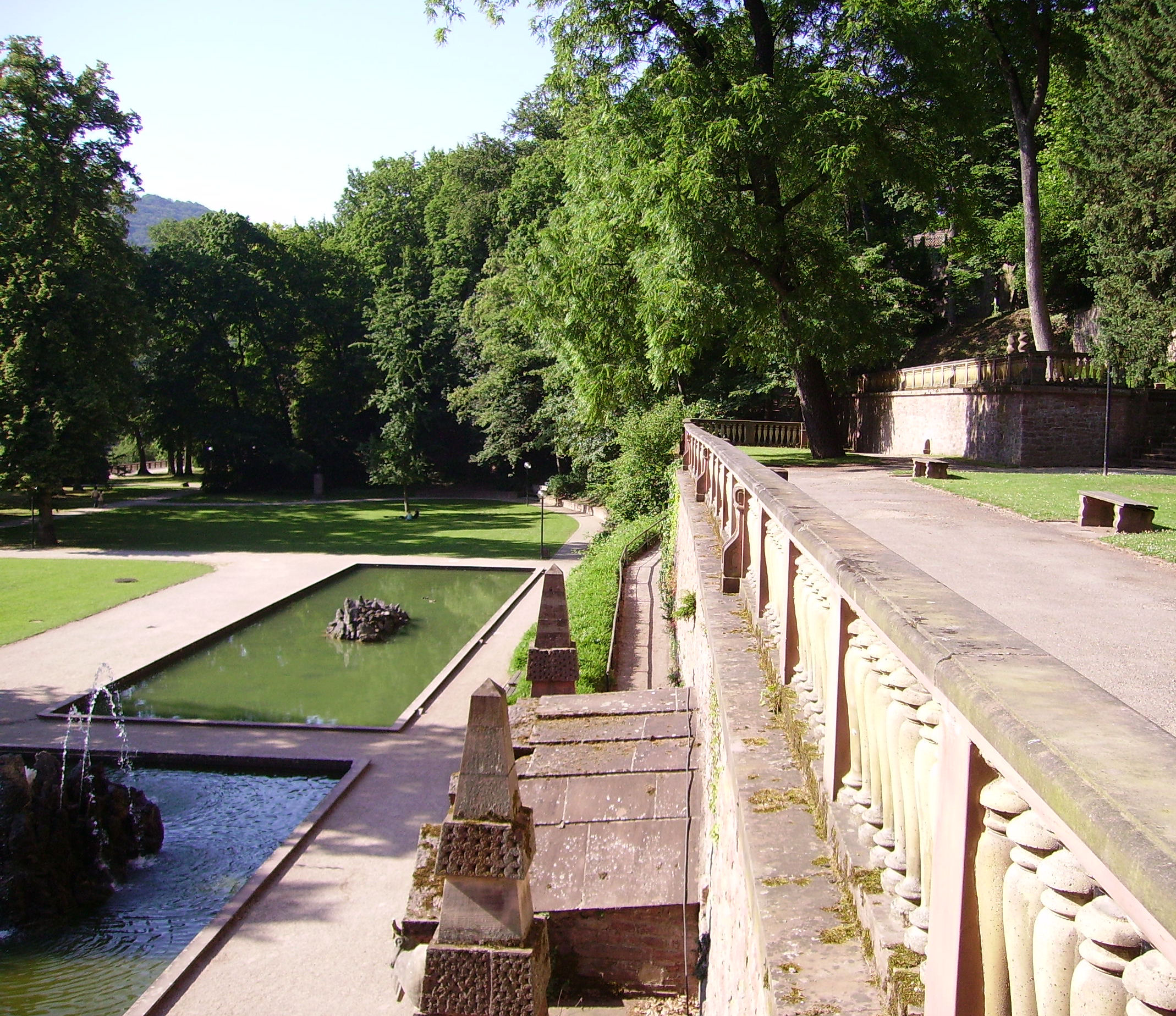 part of Heidelberg castle (Heidelberger Schloss)